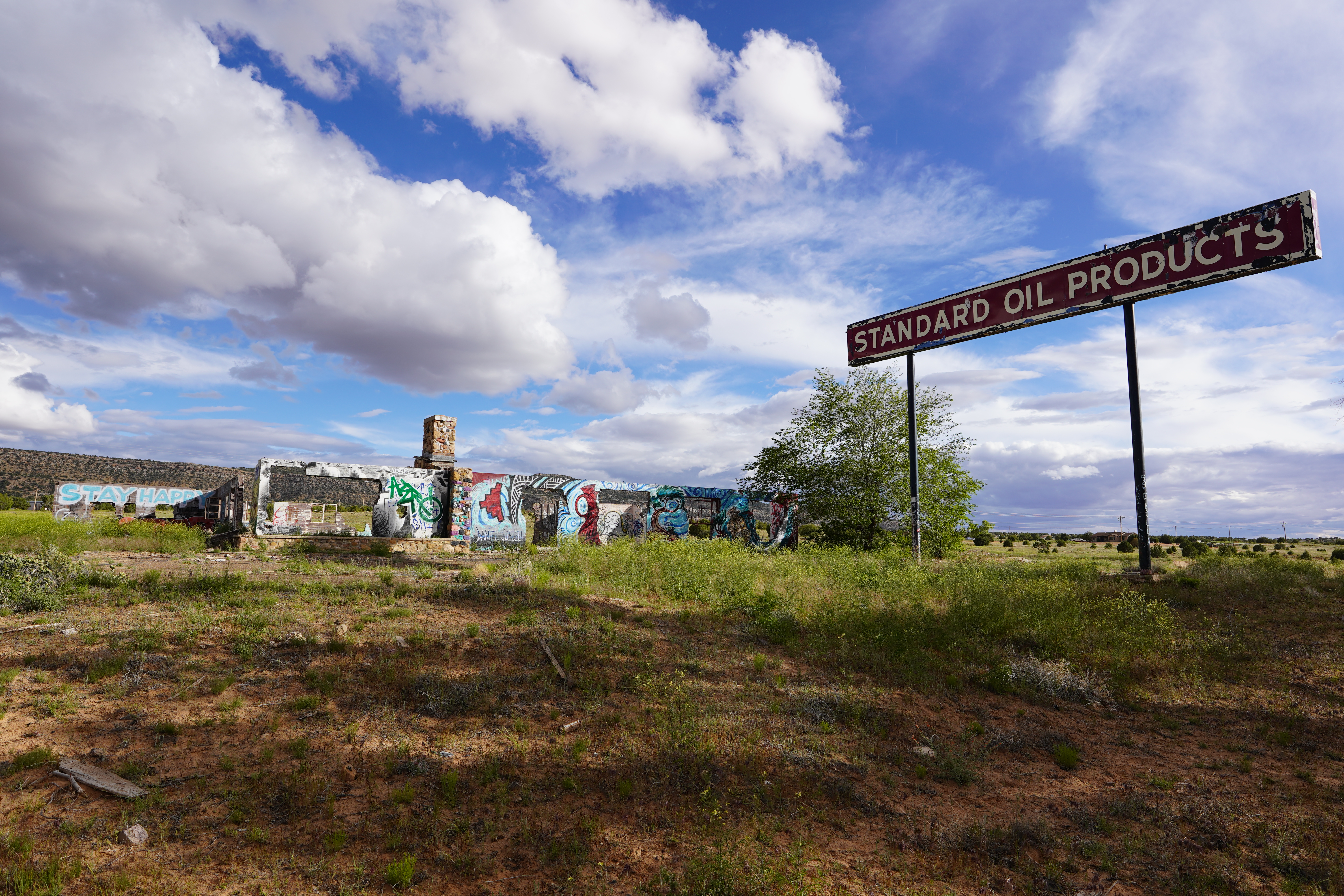 The photograph is of the ruins of the Cow Springs Trading Post located in Arizona. Photograph taken on 2019-05-29T00:34:23Z.